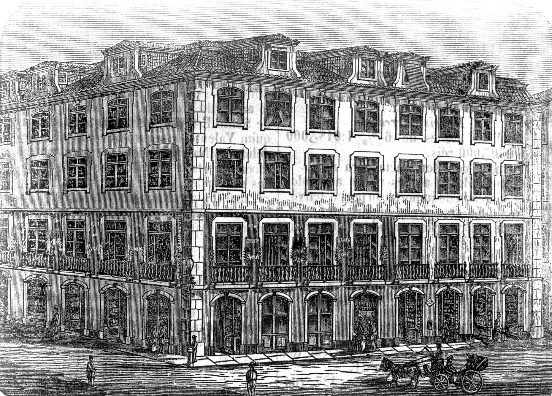 Confeitaria Nacional (National Confectioners), in Lisbon, 1872.